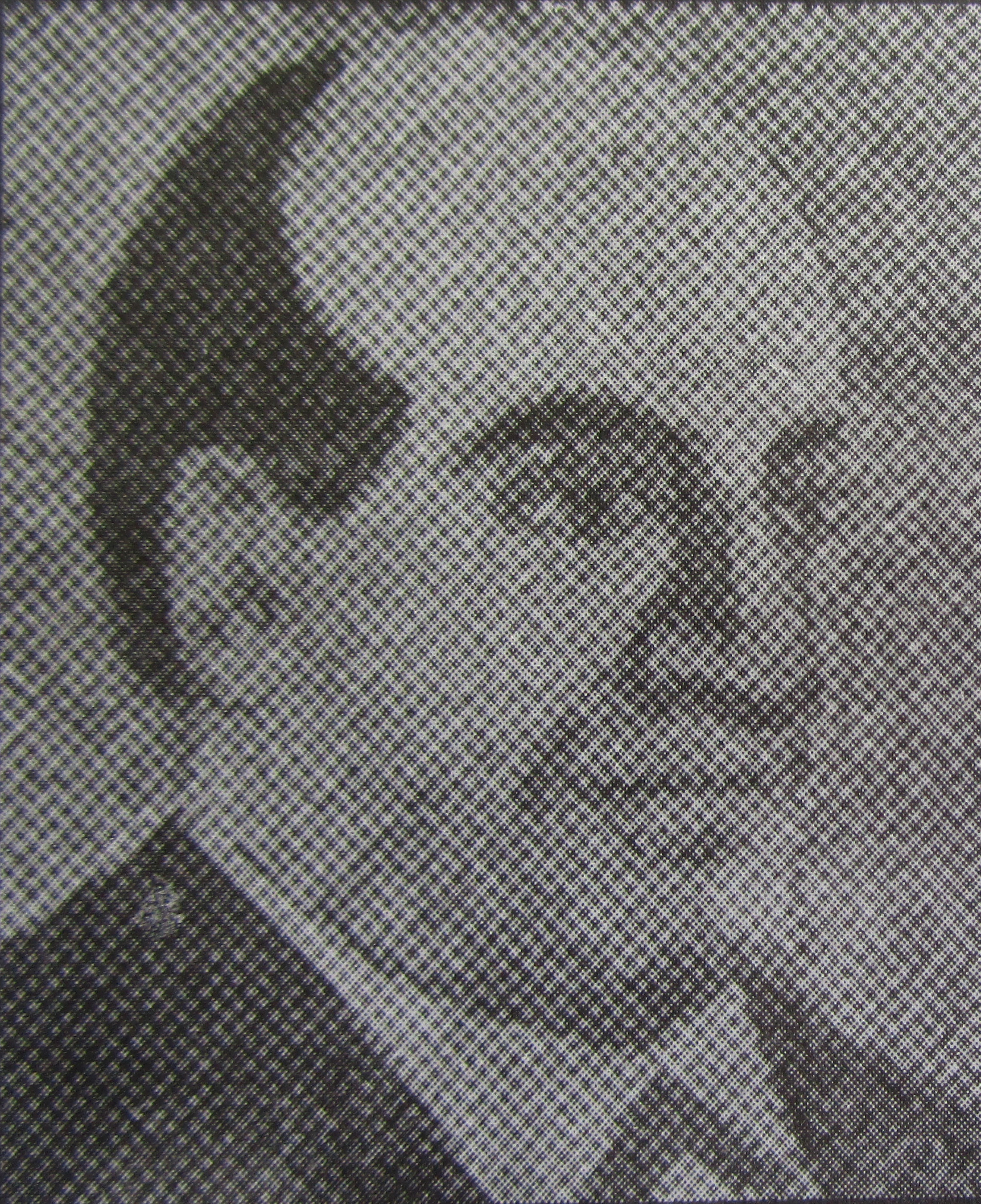 Master Amir Chand